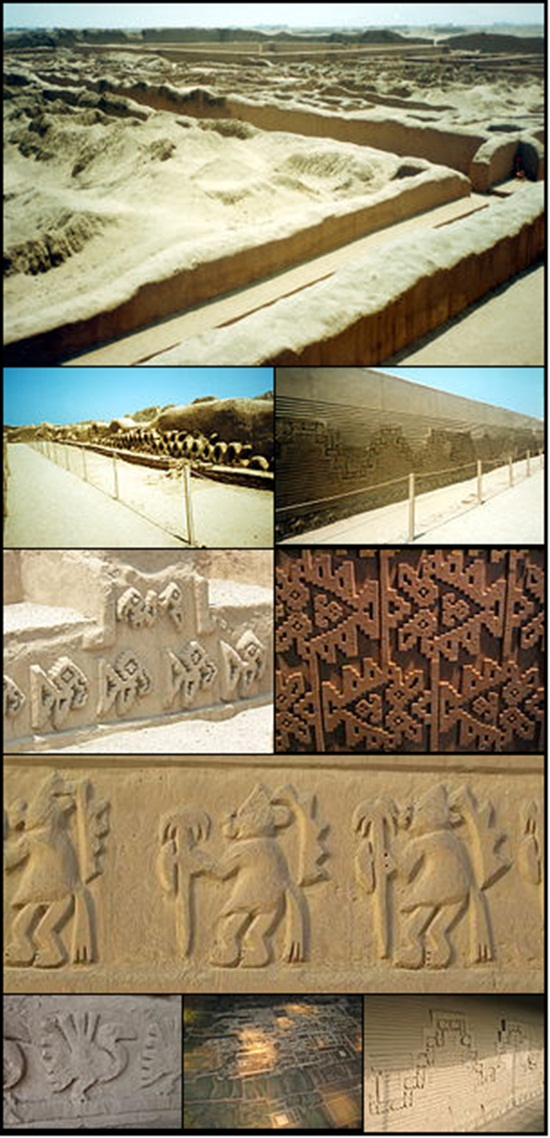 Photomontage of Chan Chan